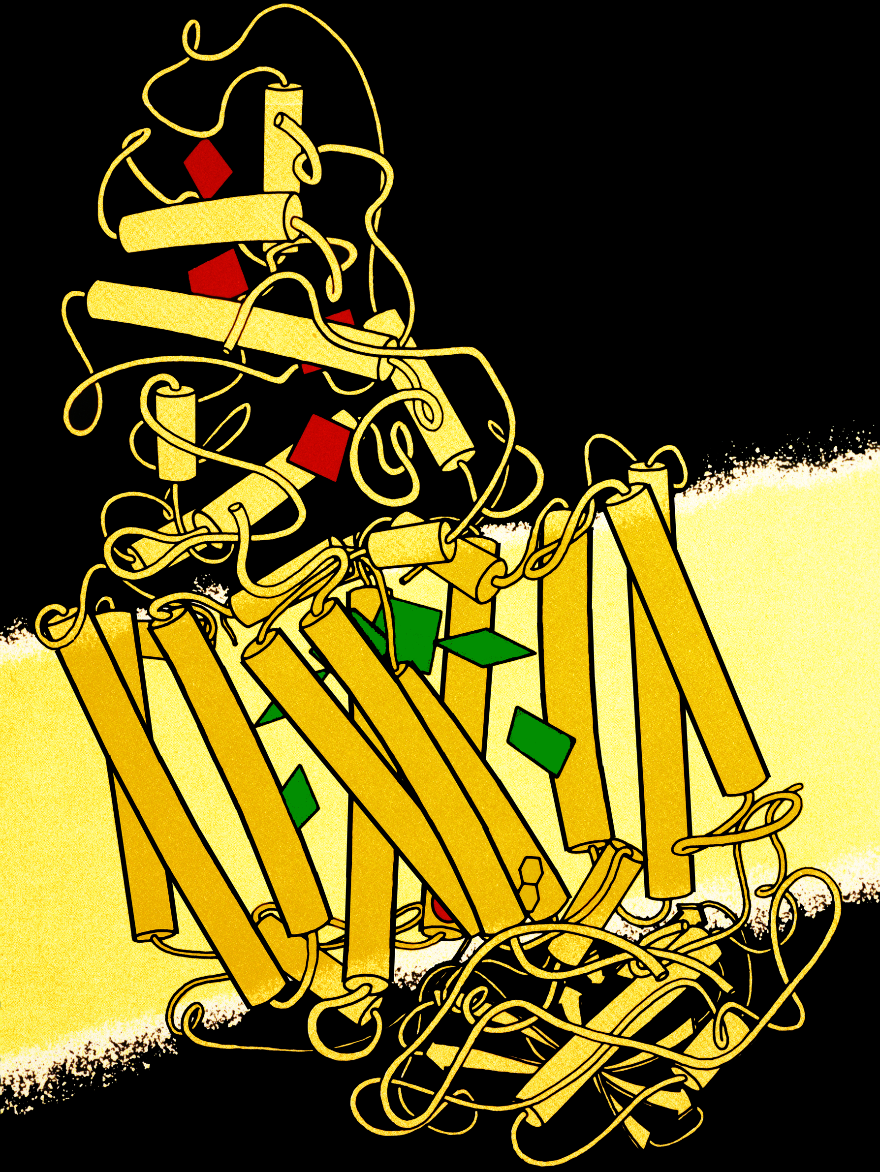 Schematic drawing of the 3D structure of the photosynthetic reaction center[1] from Rhodopseudomonas viridis. The membrane is shown as pale yellow, bacteriochlorophylls are green, hemes in the cytochrome are red, and transmembrane alpha-helices are gold cylinders. This was the first crystal structure of a membrane protein, earning a Nobel Prize in 1988. Coordinates from PDB: 1PRC​; drawn by Jane Richardson, scanned and touched up by David Richardson.